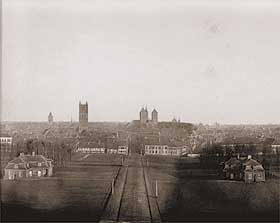 View from the castle of Muenster (Westfalen), Germany over the city and the Hindenburgplatz in the year 1857